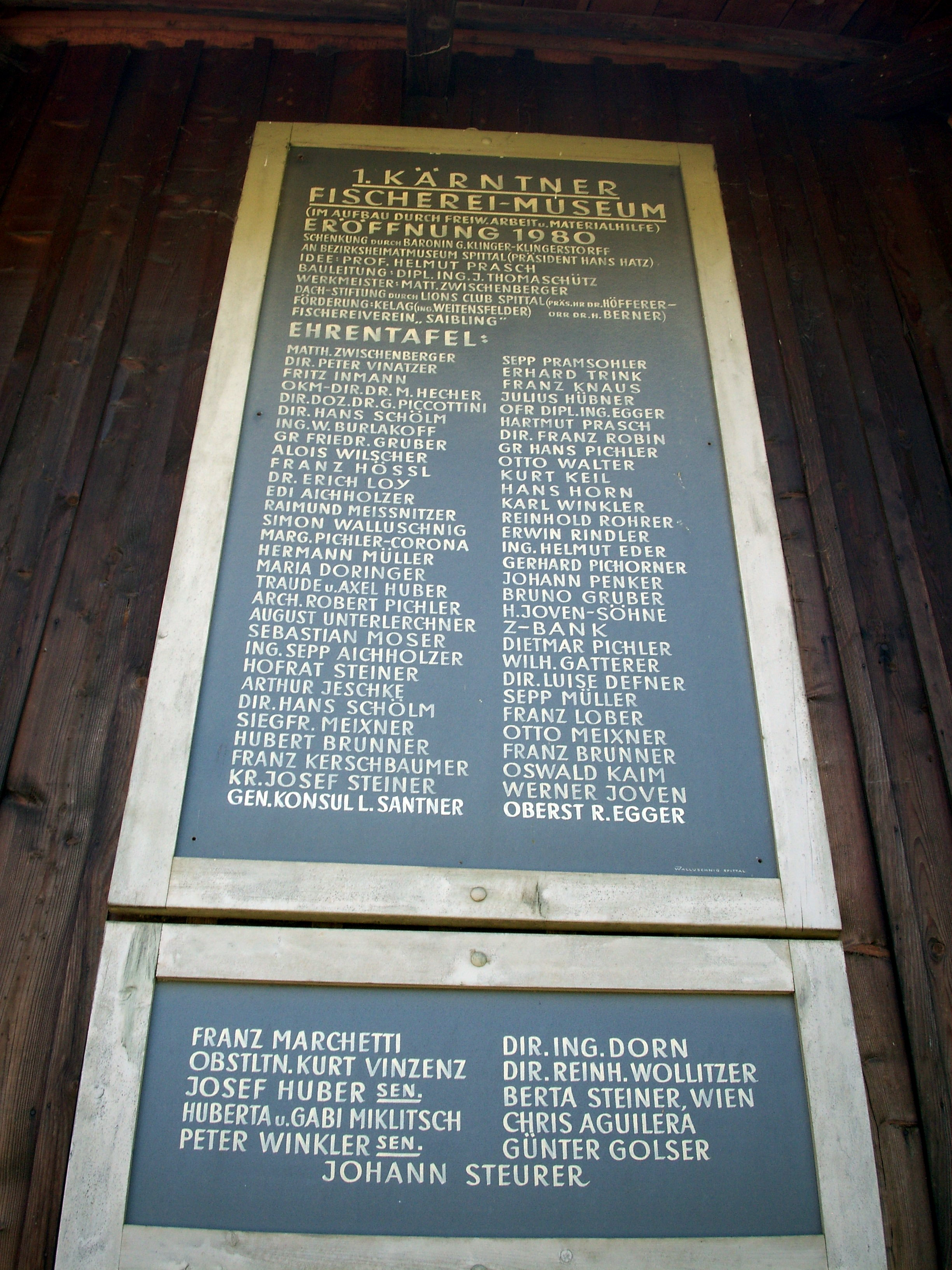 Plaque on the old fisherman house near lake Millstatt in Seeboden / Carinthia / Austria / European Union, currently a fisheries museum. 2008, the museum was sold to the community of Seeboden, which shut in 2009 the museum.